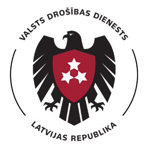 The logo of Latvian State Security Service